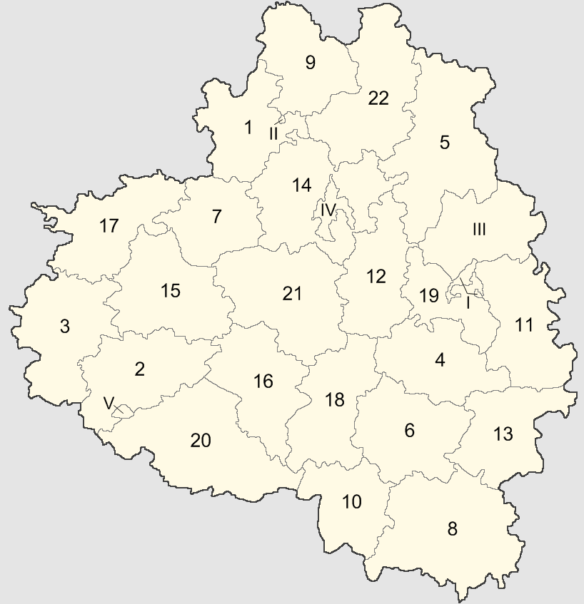 Map of the administrative divisions of Tula Oblast